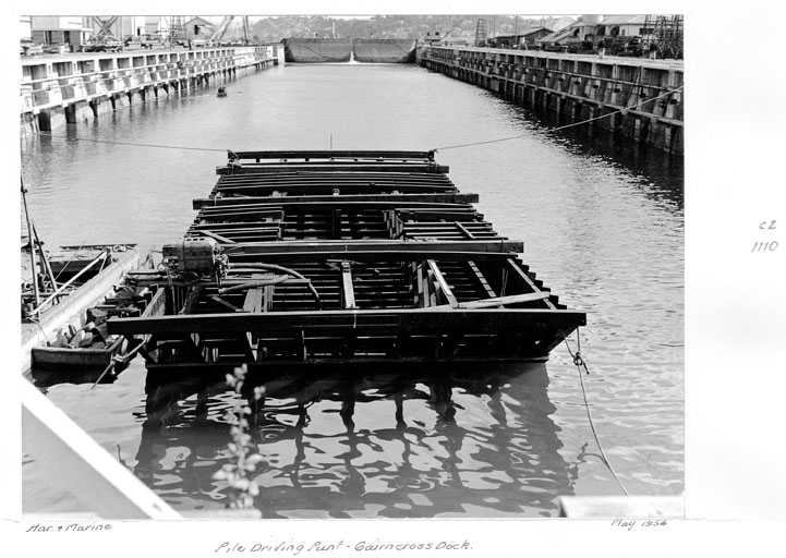 Pile driving punt, Cairncross Dock, Morningside - Brisbane, May 1954